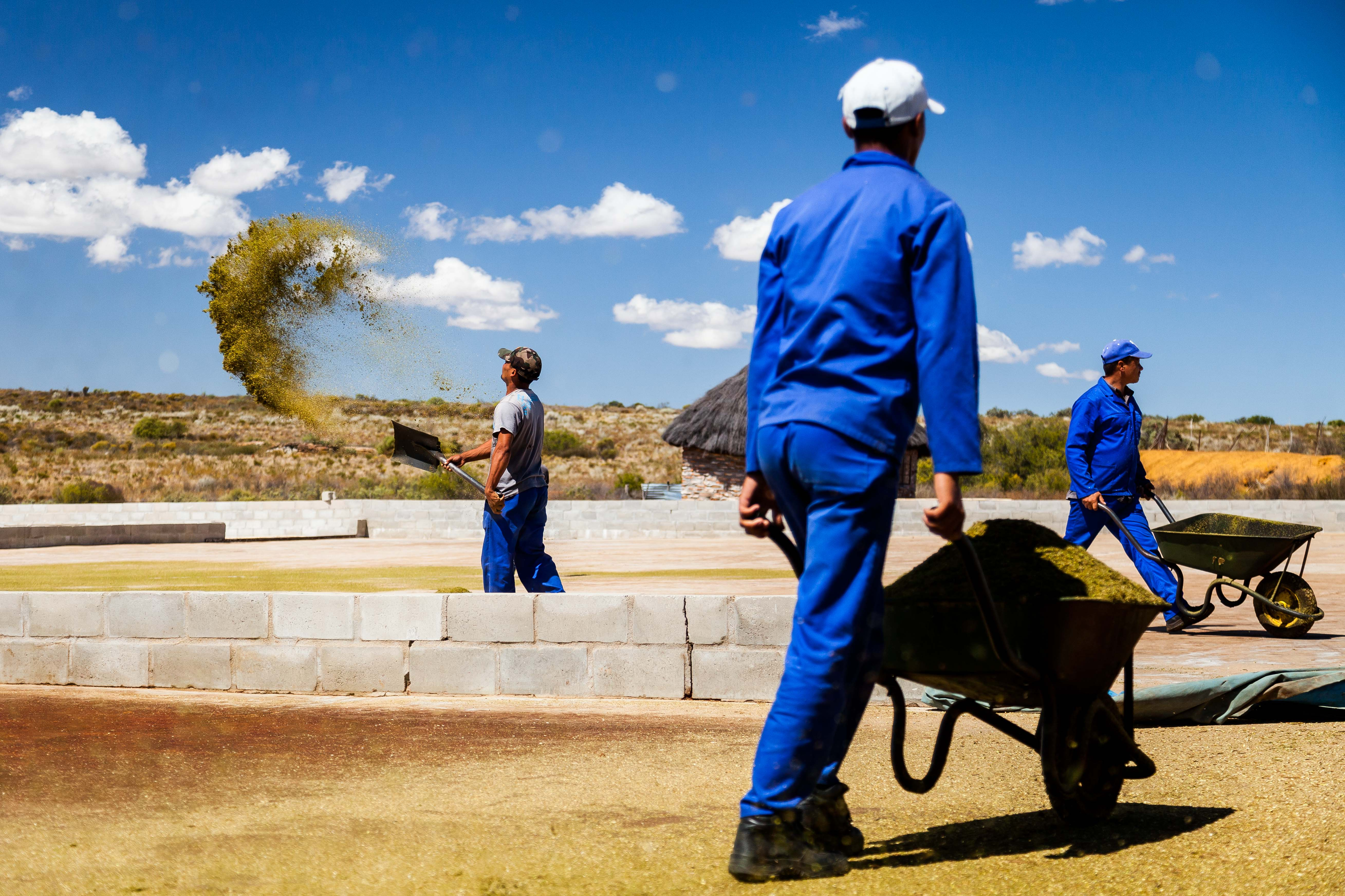 South African national drink, the Rooibos is an infusion with reddish colors that invades the planet Tea! An endemic plant, this "red bush" grows mainly on the high plateaux of the Bokkeveld, located at 320Km north of the Cape. It is an invaluable resource for the isolated local populations, which goes far beyond the simple economic aspect. It is in the small town of Nieuwoutdville, nestled in the northern part of the Cederberg mountains, that is based the cooperative "Heiveld". It consists of 64 members and producers of Rooibos, all of the colored population, whose plots extend all along the plateau. Established in 2001, it is the culmination of long years of exploration and collaboration between local producers, Rooibos traders, and other consultants. Above all, it represents the fulfillment of a dream. The one of a handful of producers who, under the Apartheid regime, had the crazy idea of becoming owners of their land. In order to exist and emancipate themselves, to live more than to survive. "The rooibos brought us much more than we could have imagined. We have become autonomous and united. This is my conception of freedom "concludes Pieter Koopman, president of the cooperative, perched above the valley. In silence, his gaze then arises on the fields of wild rooibos spreading as far as the eye can see, on the lands of his childhood. Where dreams come true. Where souls bind themselves in the same destiny. Where only one colour predominates, now, The Red. This is an image of "African people at work" from South Africa